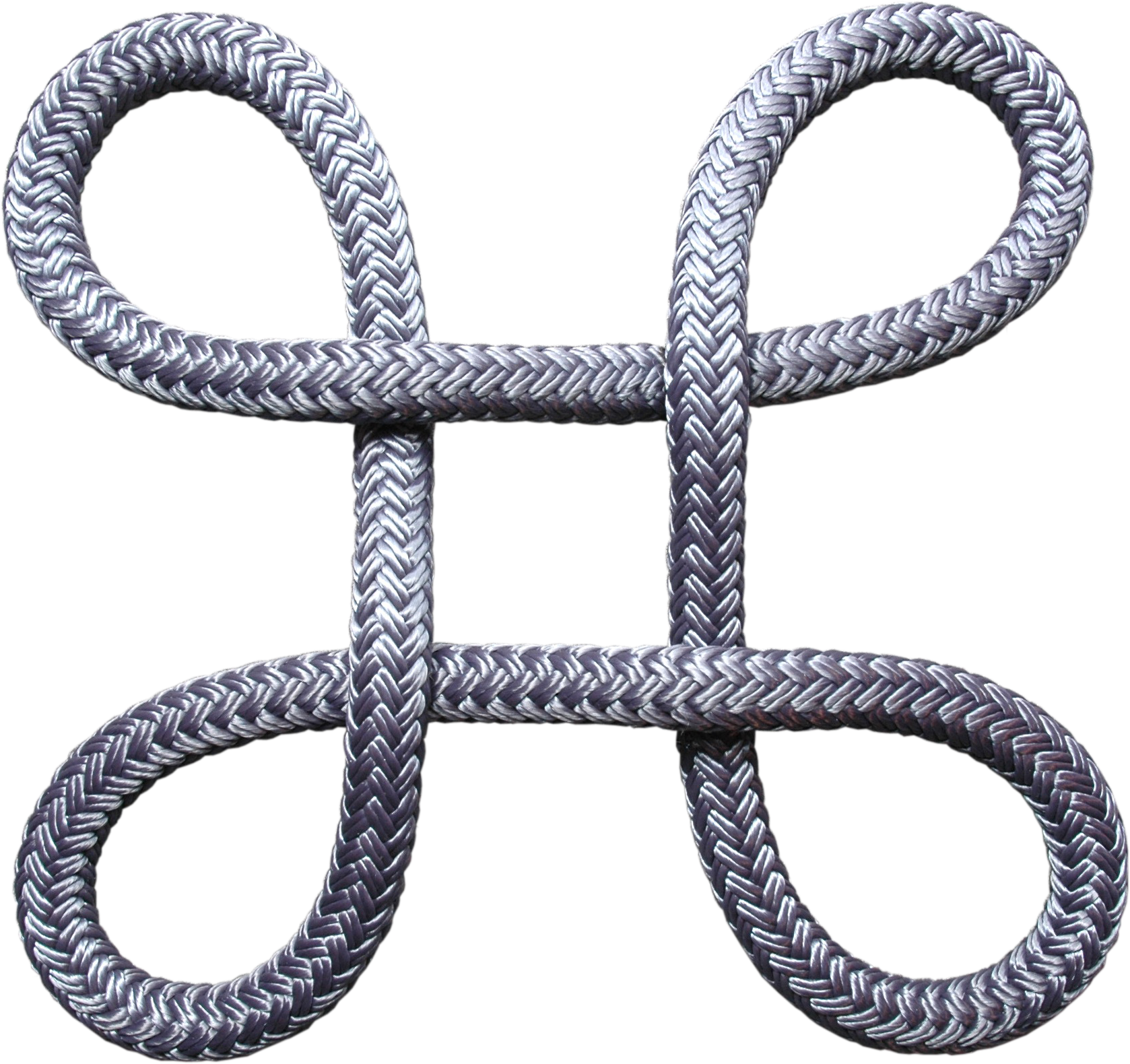 The Bowen knot is an emblem used in heraldry. This image was based on information from James Parker's A Glossary of Terms Used in Heraldry first published in 1894. It is available online here. Specifically the over/under crossings are as depicted in this image.